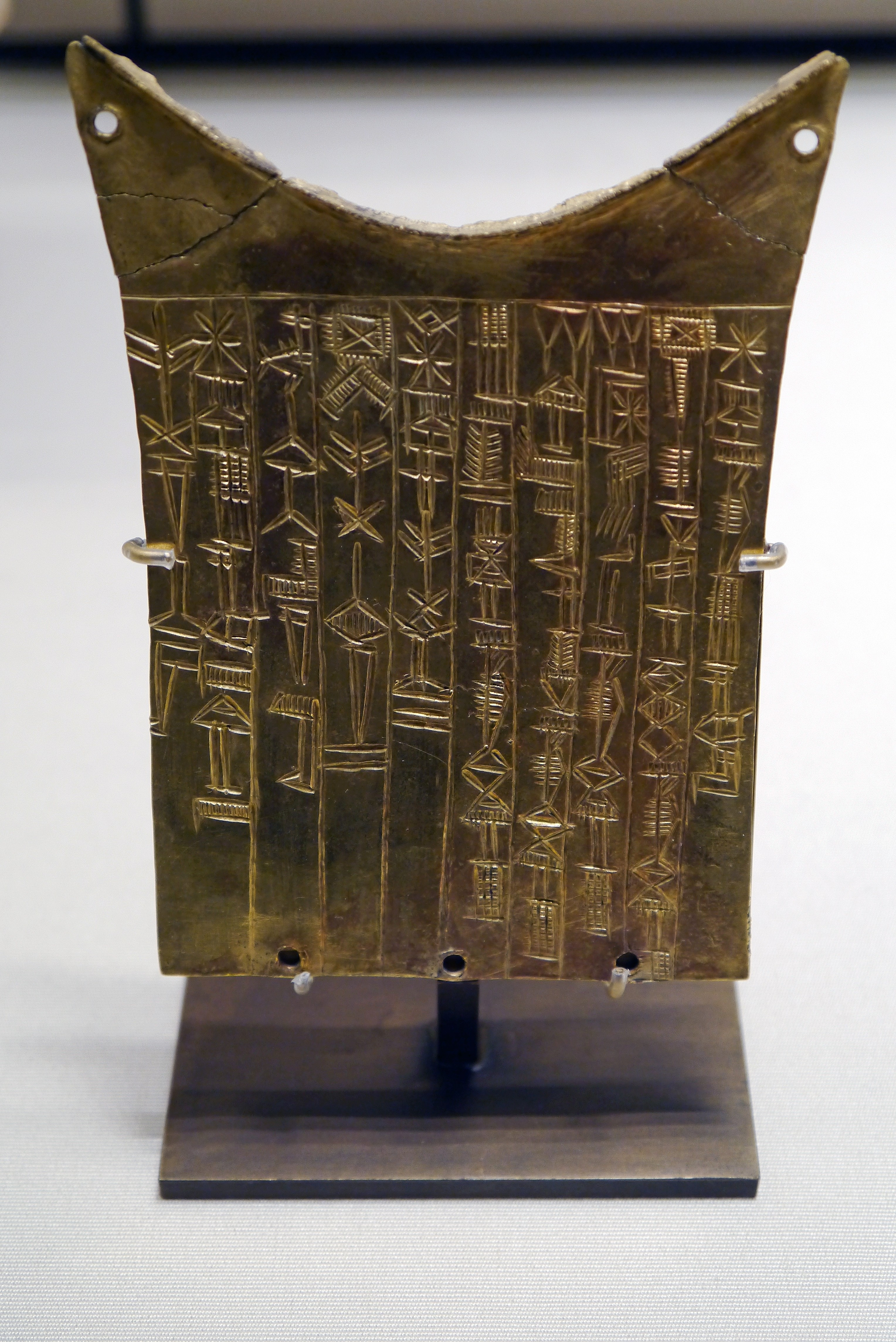 Offered by Bara-Irnum, queen of Umma, to God Shara in gratitude for sparing her life.